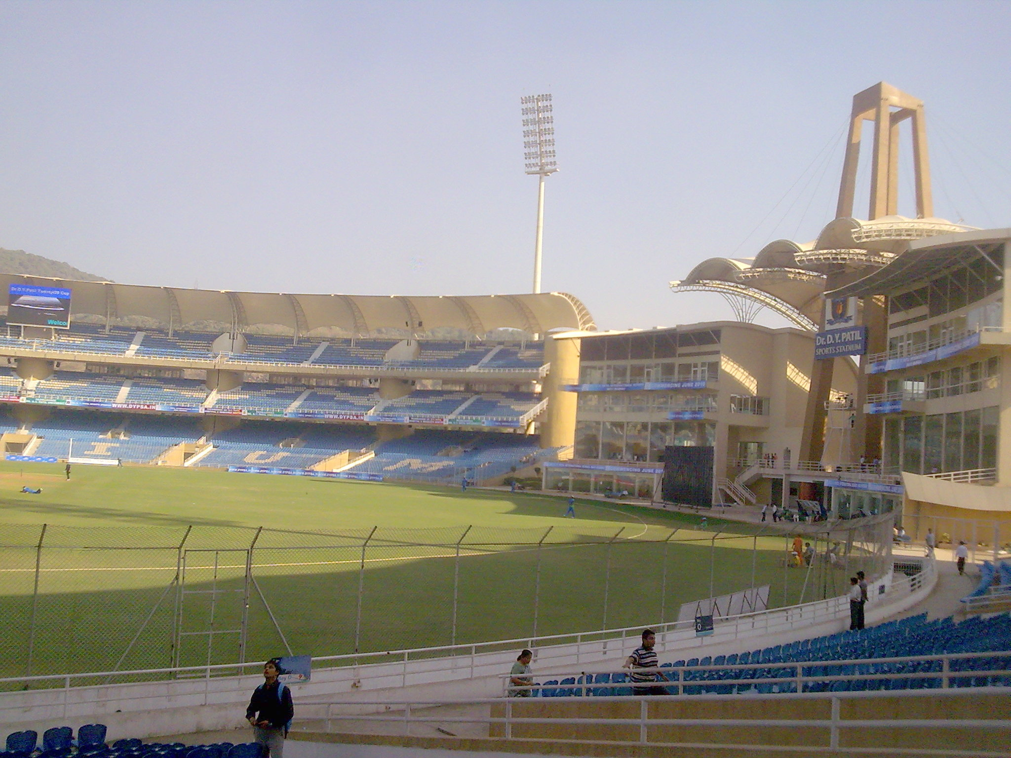 DYPatil Stadium